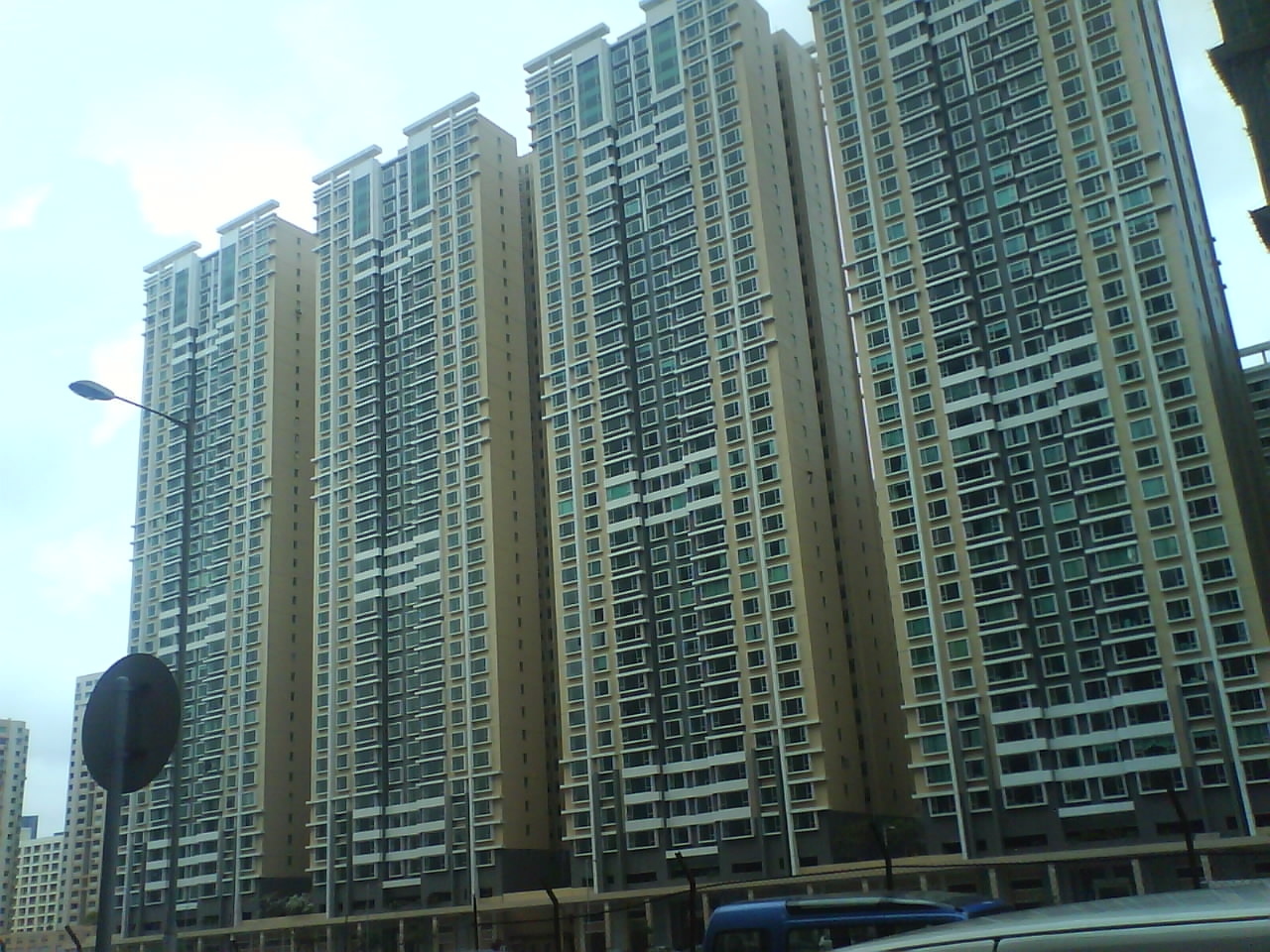 Blocks of Nova City